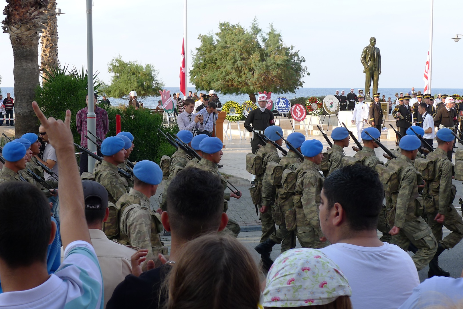 Hand signal "wolve" of the turkish right-wing extremists "grey wolves", seen 2012 at the parade of the turkish national holiday in Girne (Kyrenia), Northern Cyprus.